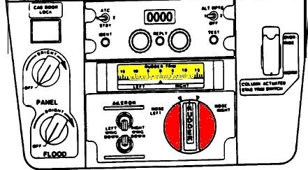 Rudder Trim Control (red highlight-added) and rudder position indicator (yellow highlight-added)